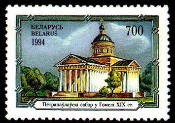 Stamp of Belarus